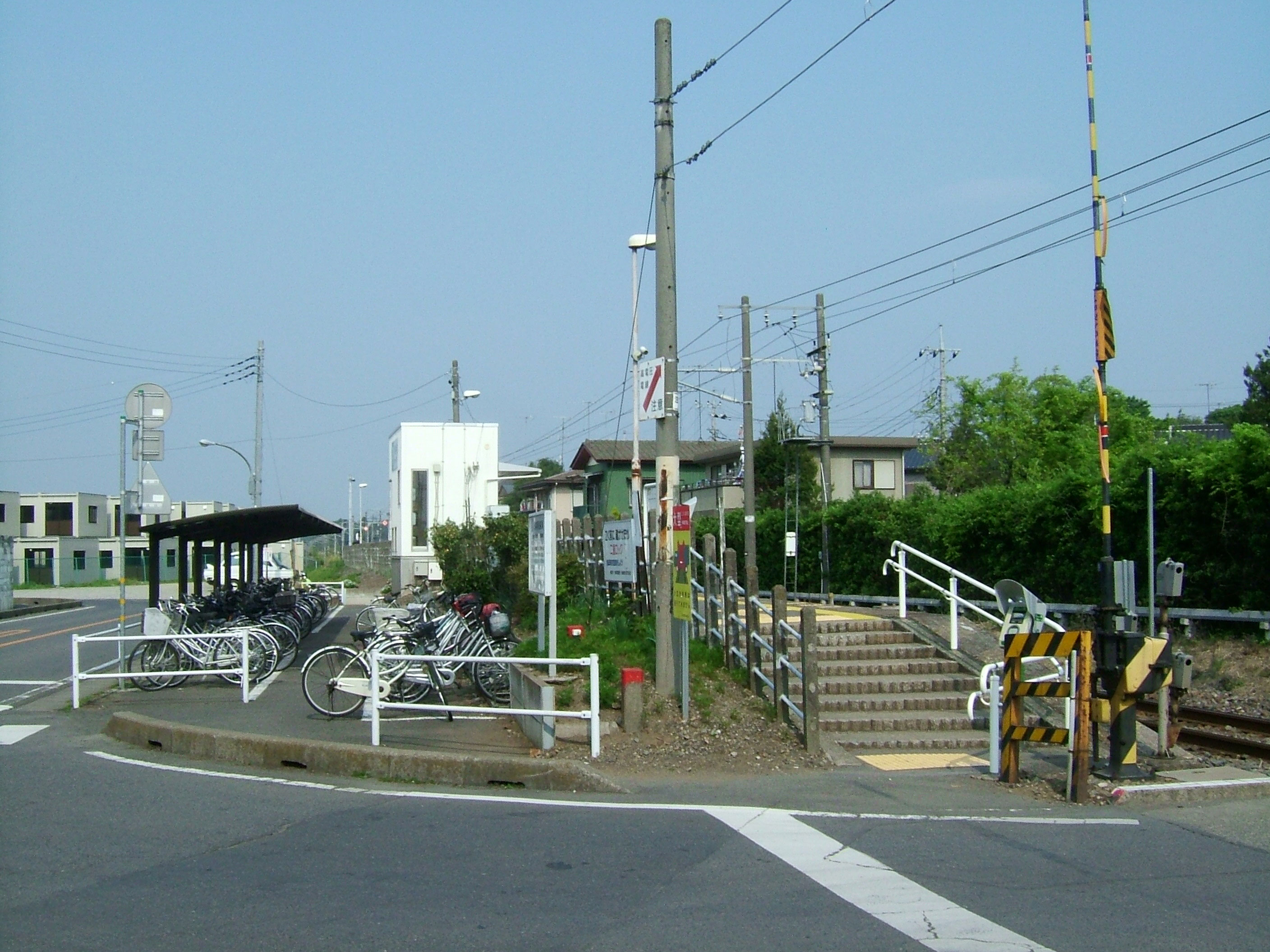 Otabayashi Station (East Japan Railway Mito Line)